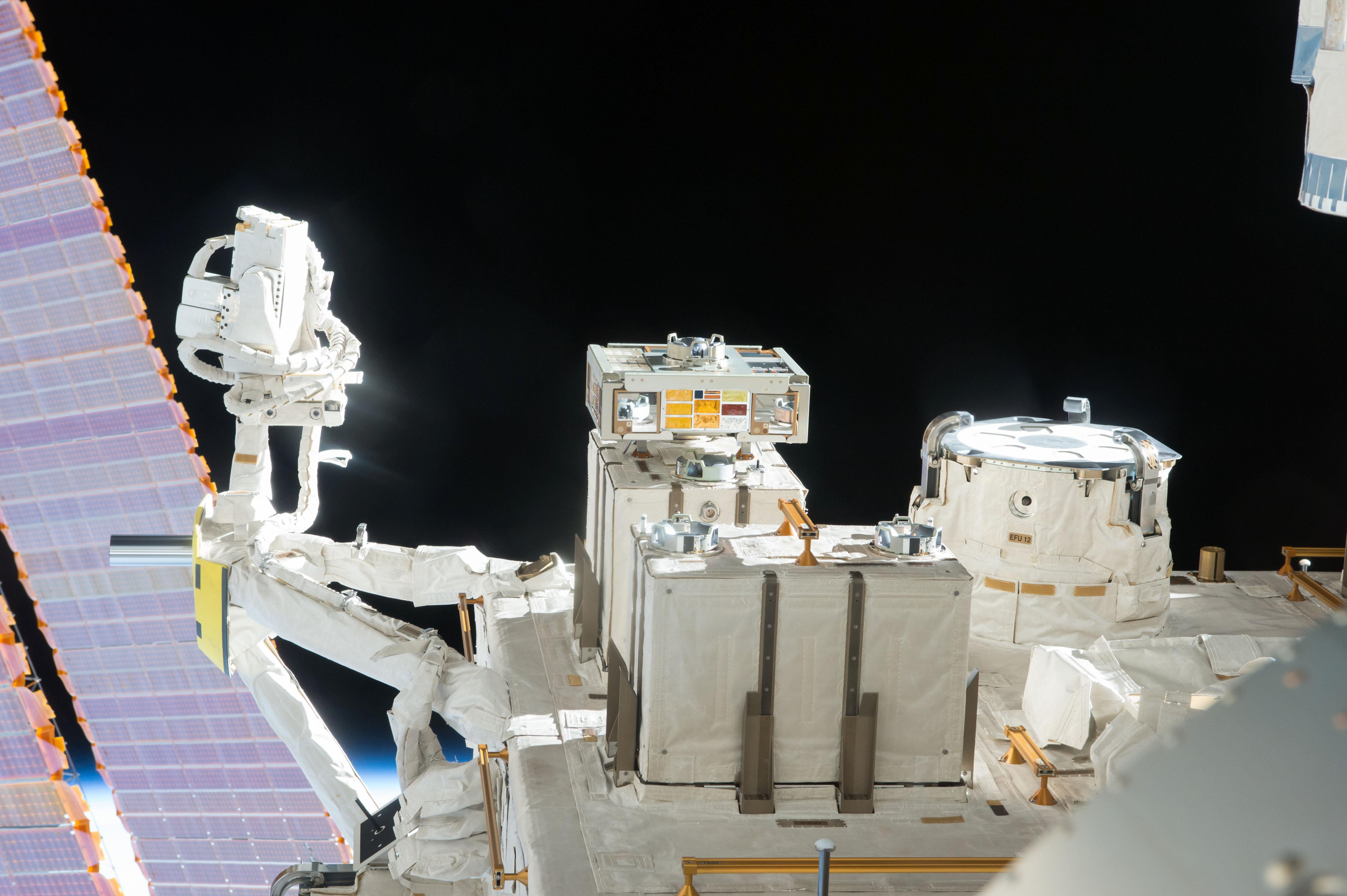 The Japanese Experiment Module Exposed Facility (JEM-EF) seen through a window in the Kibo Japanese Experiment Pressurized Module (JPM) with an Exposed Experiment Handrail Attachment Mechanism (ExHAM) and an Exposed Facility Unit (EFU) in view.